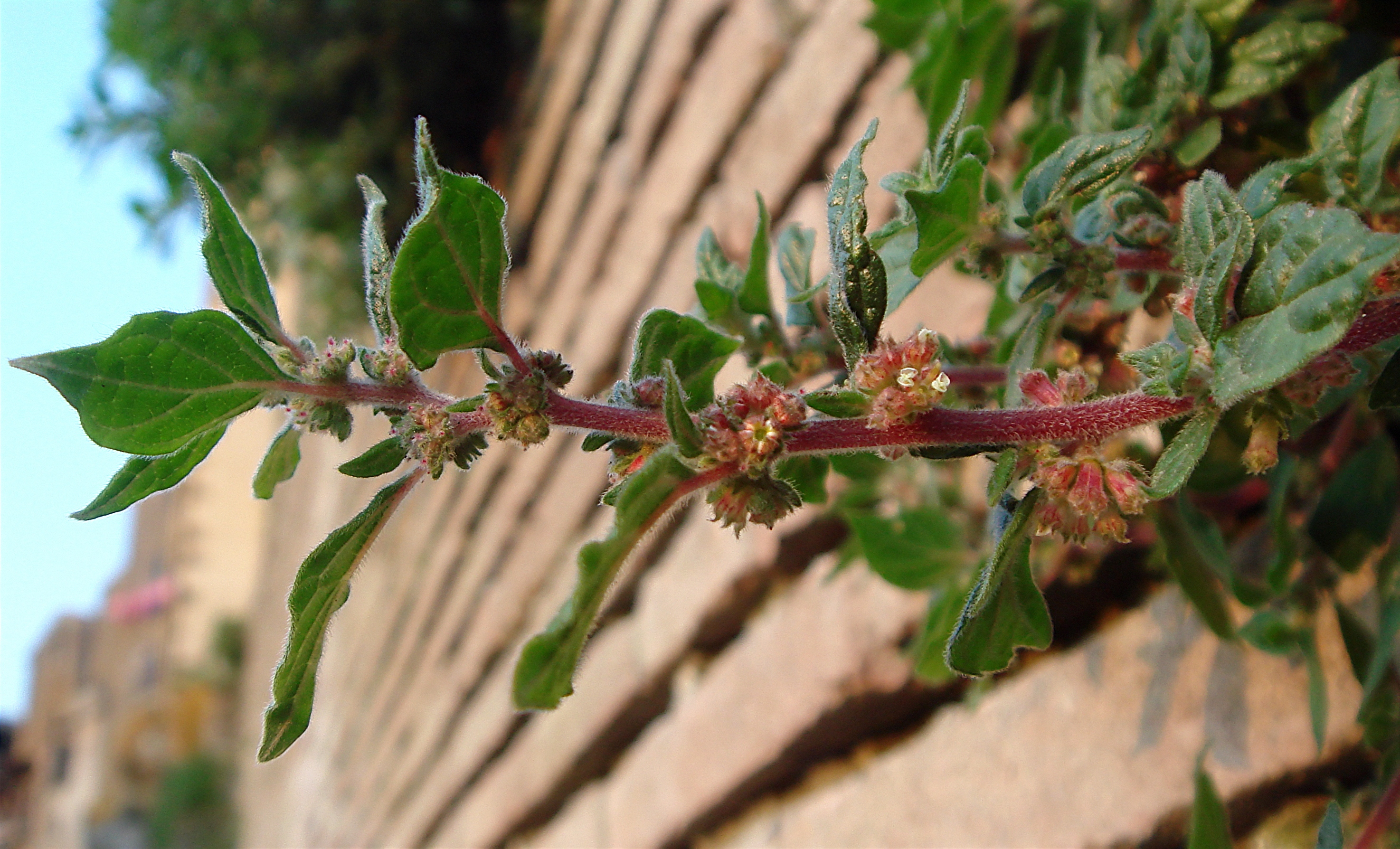 Parietaria_judaica, branch with brick wall in background (Bomarzo, Italy). Left upper background is P. jud. as well.